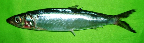 Dussumieria acuta collected in Pakistan.